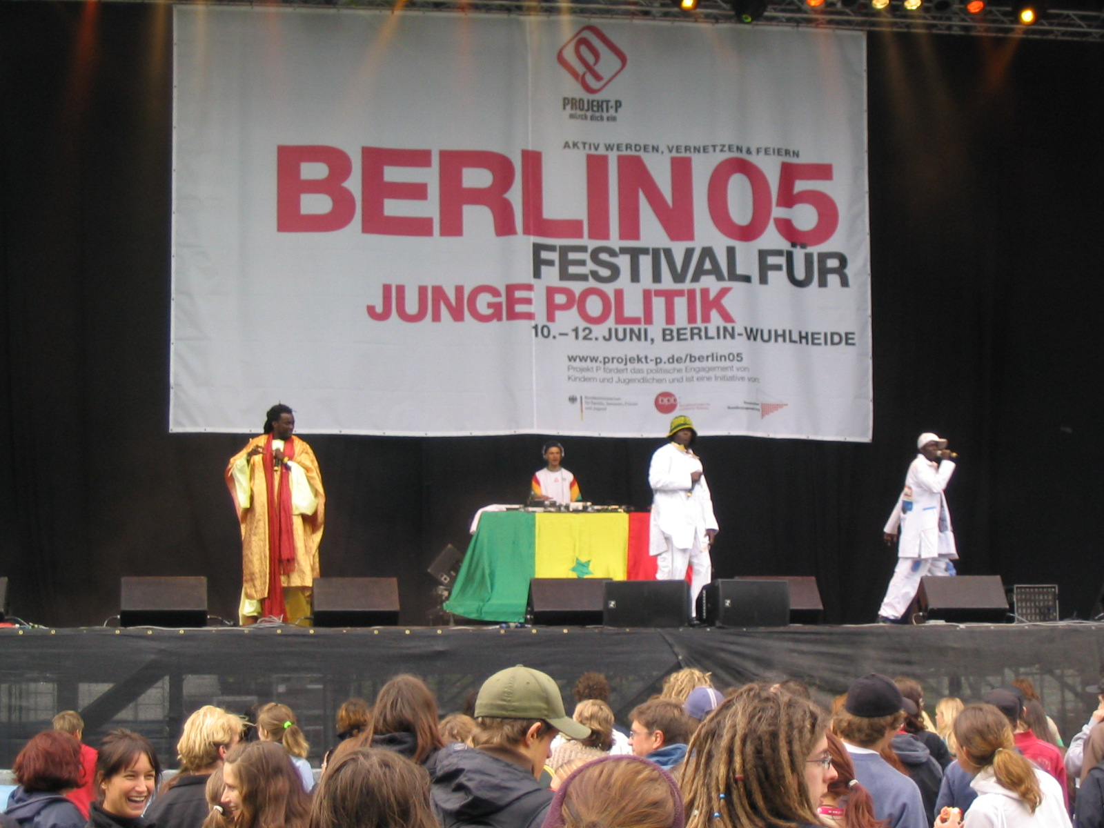 Darra J at the Berlin 05 festival